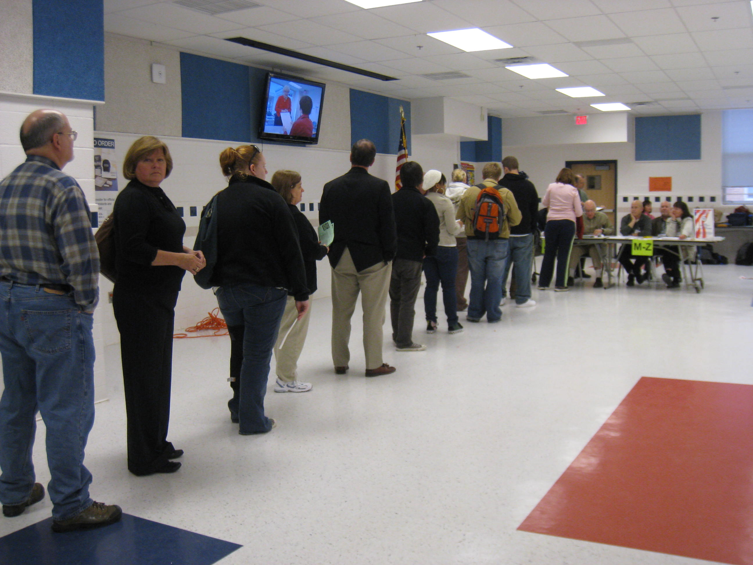 Election Day 004.jpg